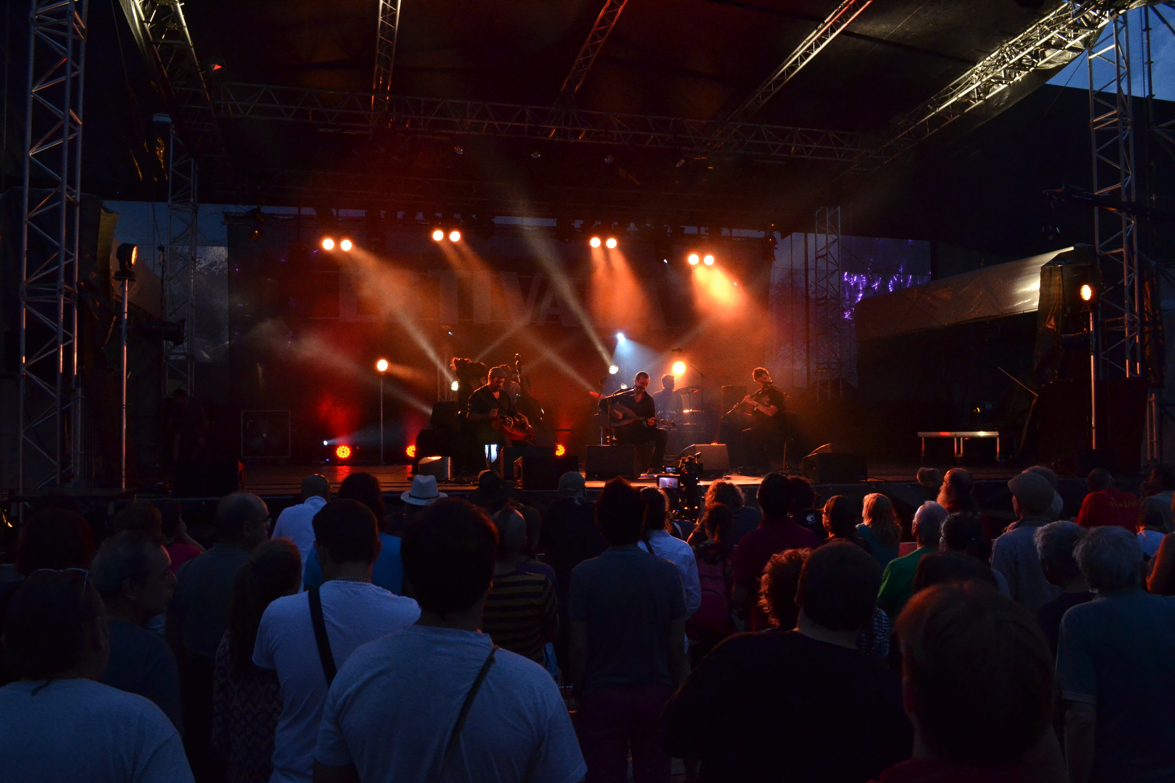 Dupain concert during Estivada 2015.